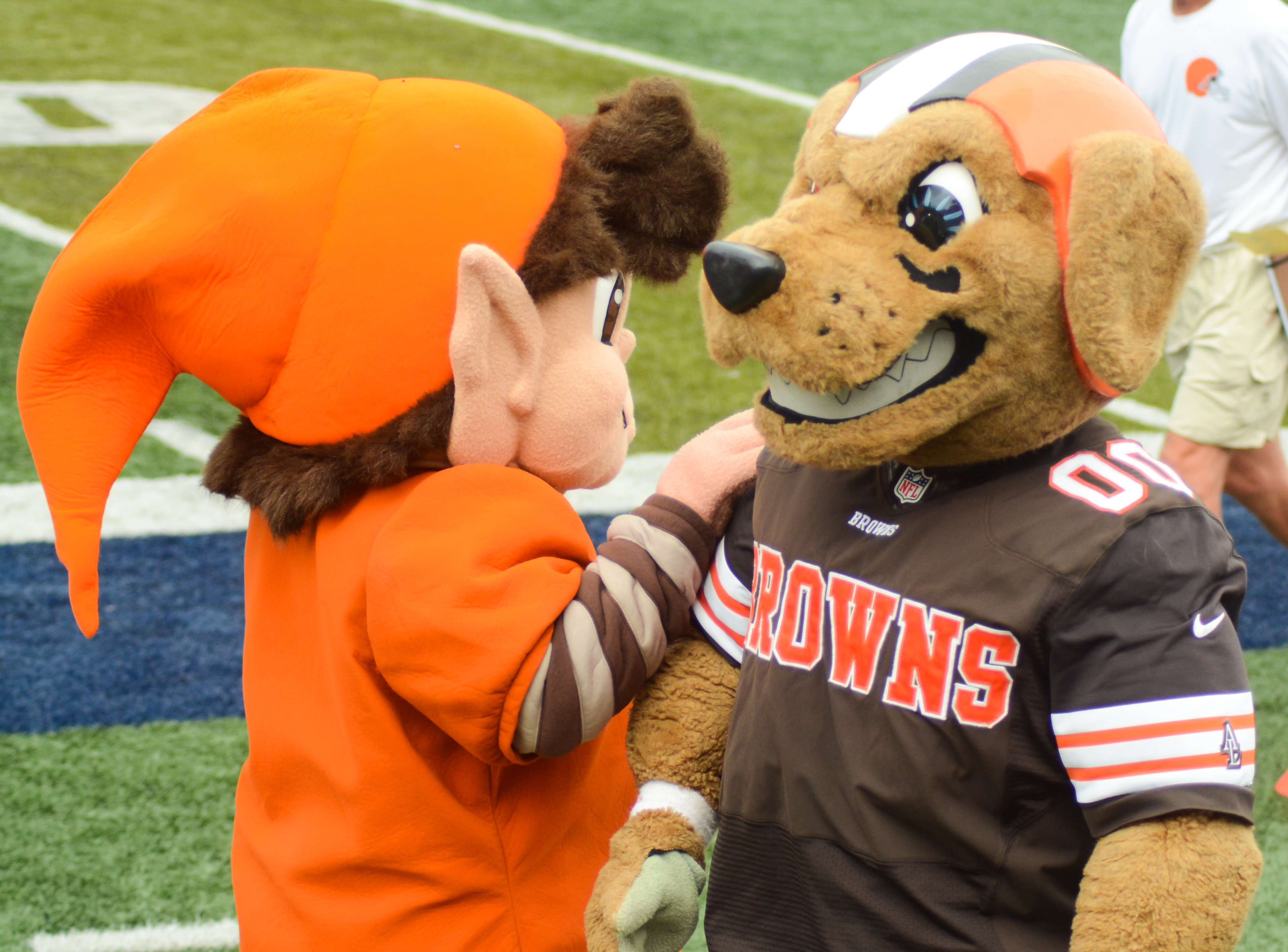 Brownie the Elf and Chomps at Browns training camp